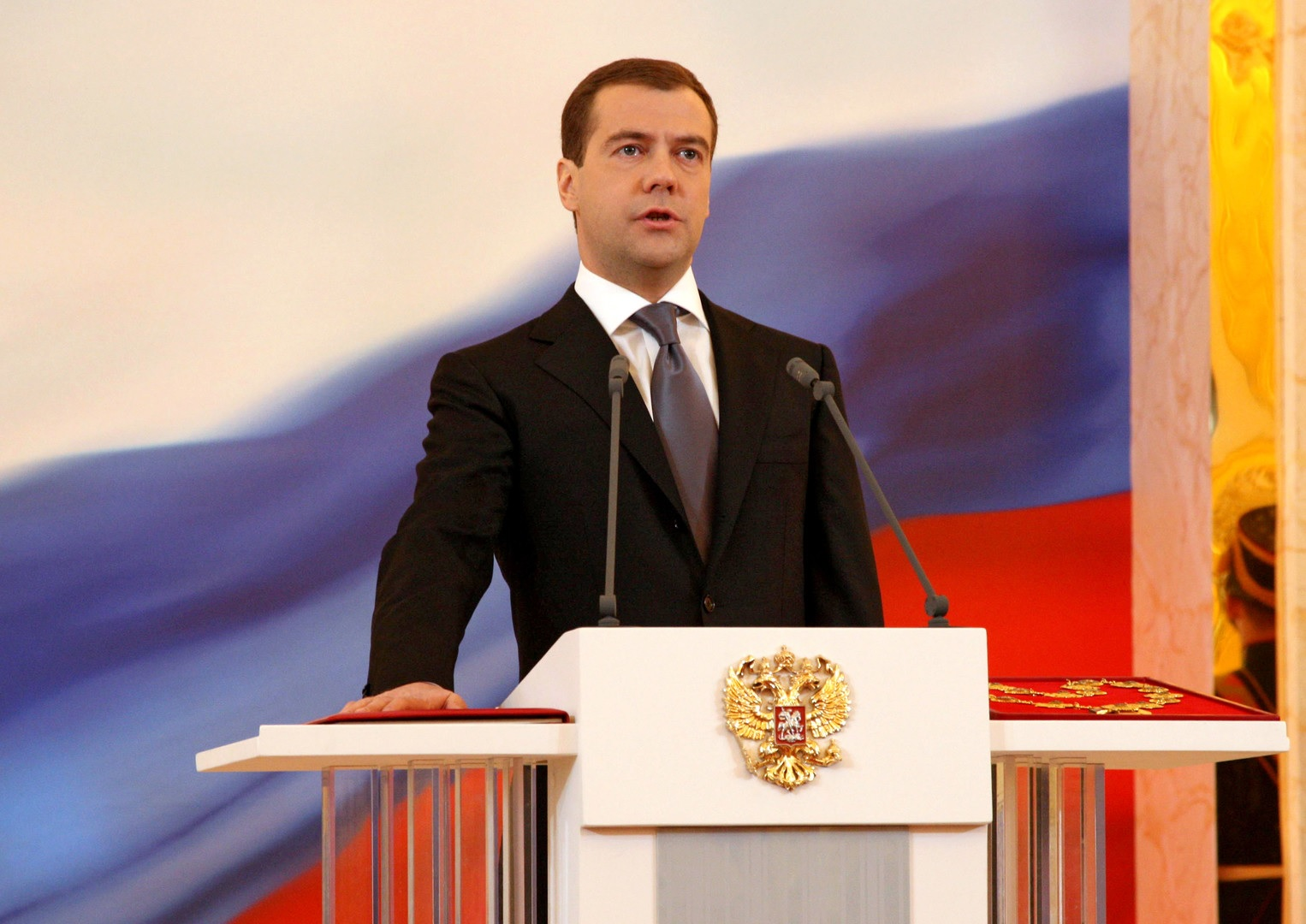 GRAND KREMLIN PALACE, MOSCOW. Dmitry Anatolyevich Medvedev takes the presidential oath.